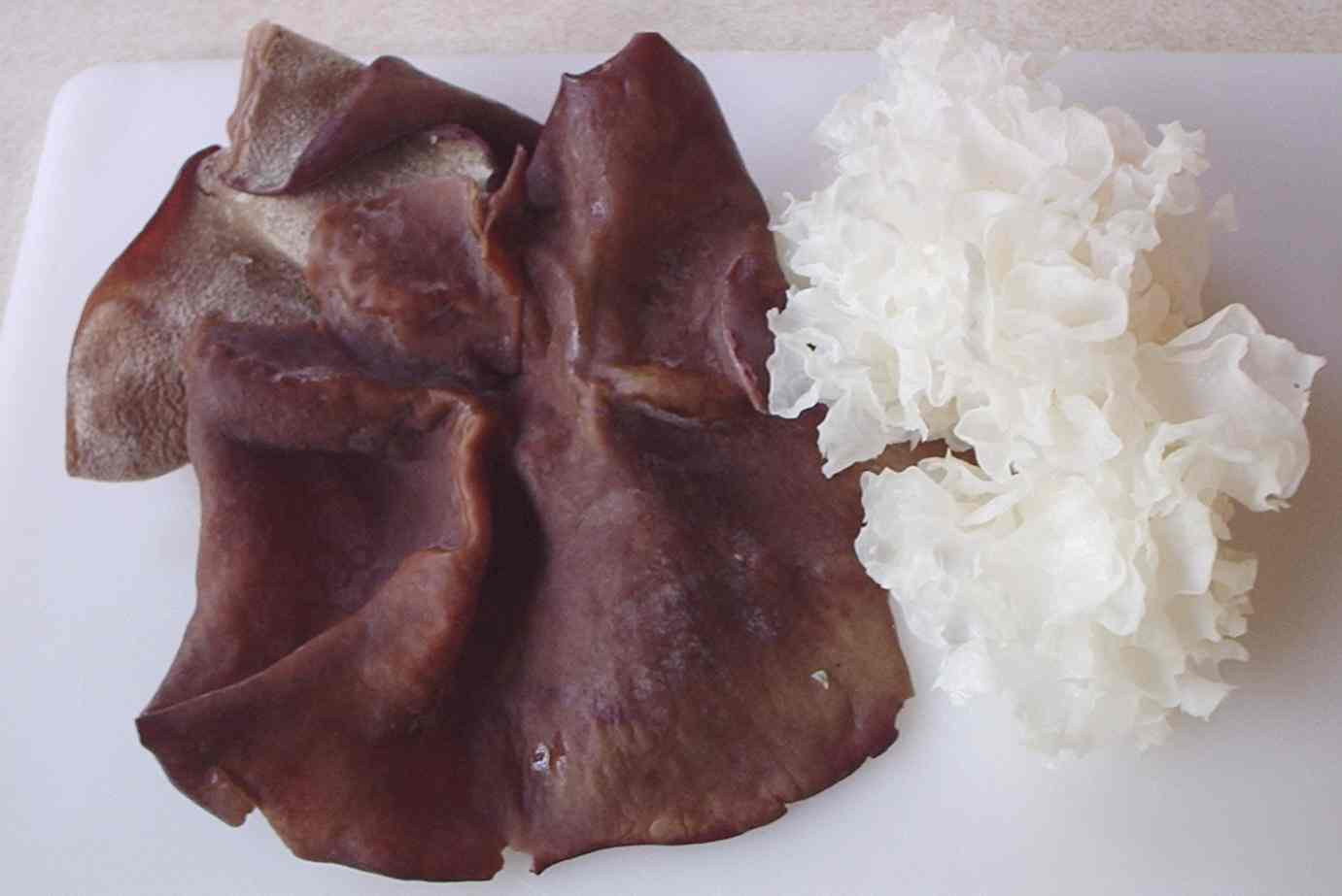 Black and white fungi, two types of cultivated edible mushroom. This is an original photograph by Andrew Alder, taken on 10 October, 2005.